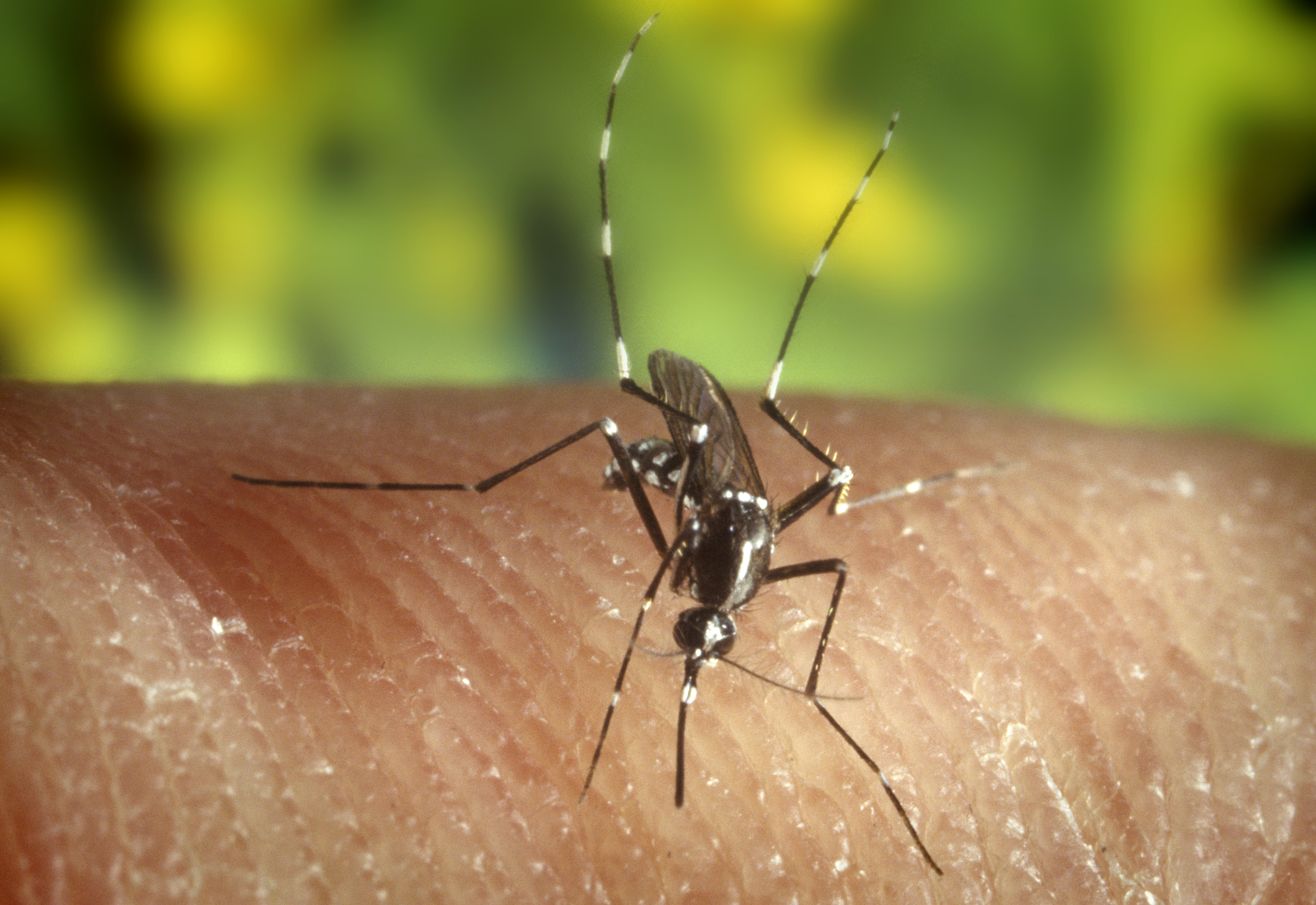 Asian tiger mosquito (Aedes albopicts)